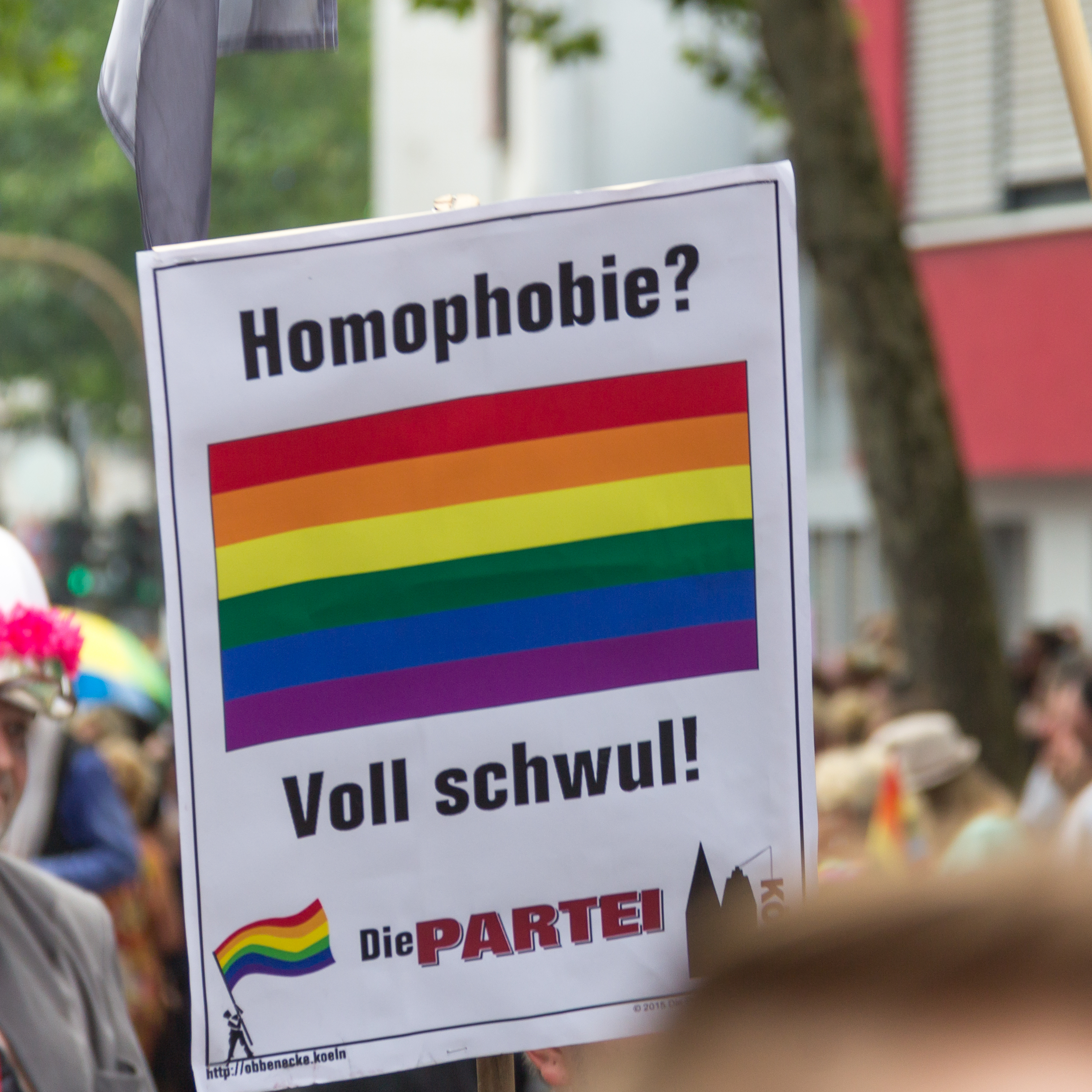 Participants of the ColognePride demonstration, Christopher Street Day Parade 2015 (CSD)